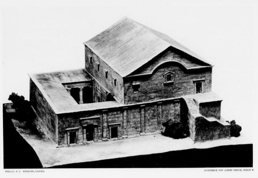 Visualization of "White synagogue" from Capernaum (from North-East)